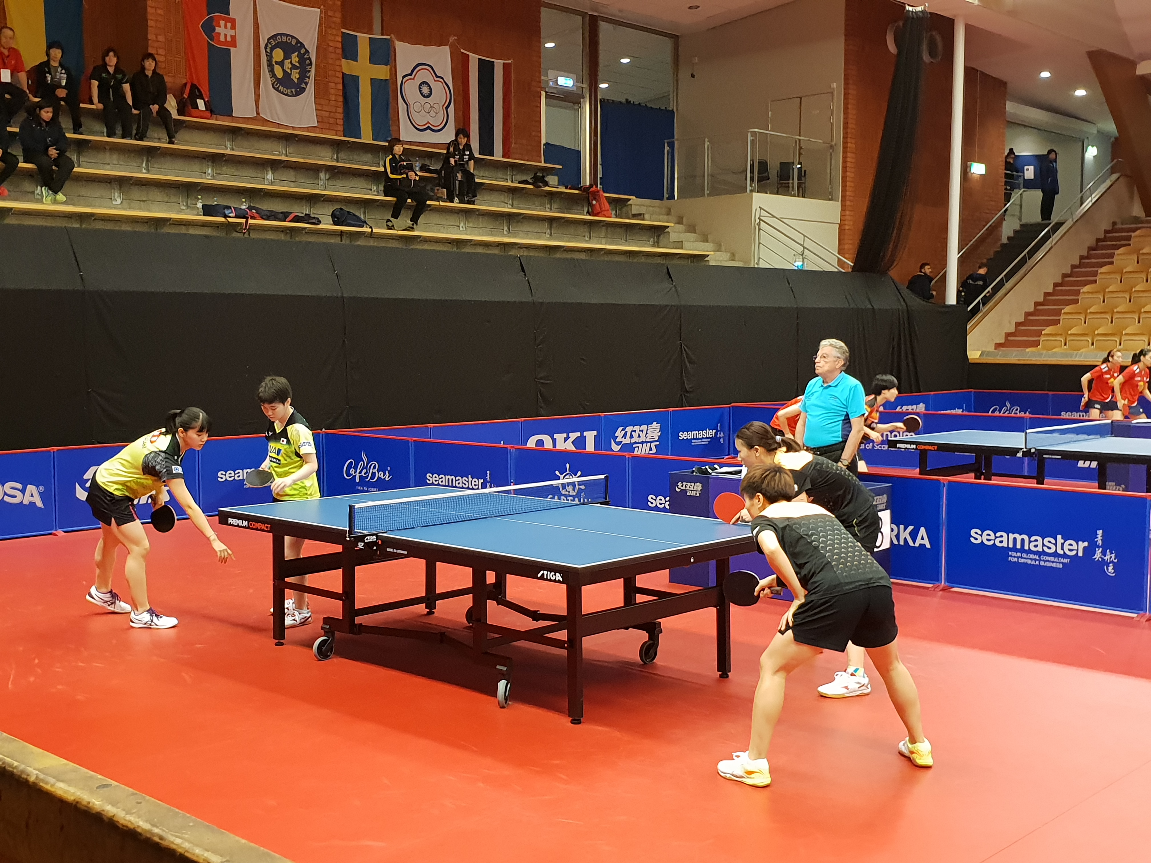 Swedish Open Championships, played in Eriksdalshallen, Stockholm in October 29 to November 4 2018. Women's Doubles Round 2, game between Miyu Nagasaki and Satsuki Odo from Japan (in yellow shirts) and Liu Gaoyang and Zhang Rui from China.